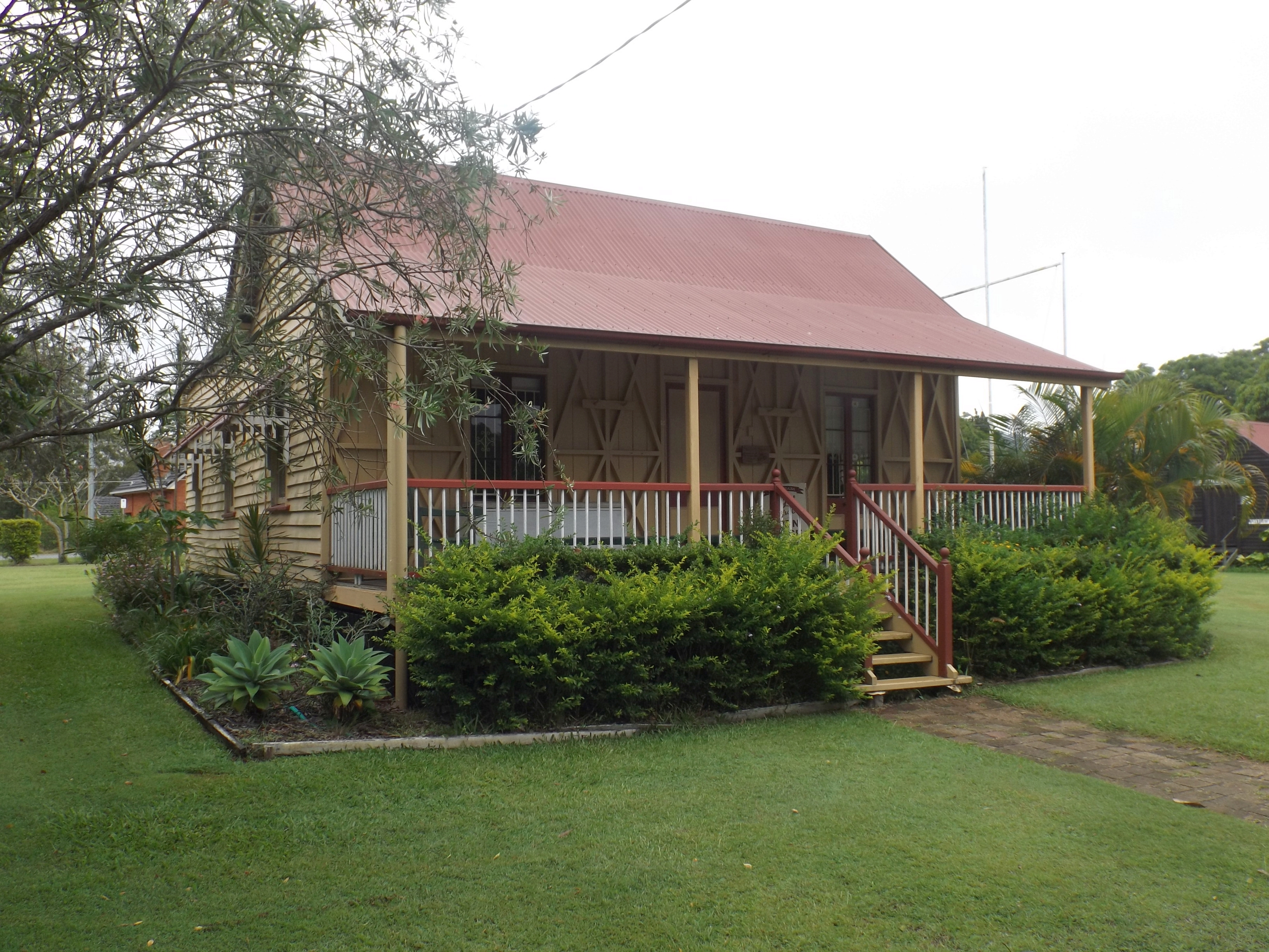 Photo of the Schmidt Farmhouse at Worongary, City of Gold Coast, Queensland, Australia.